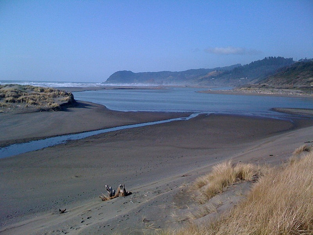 The mouth of the Pistol River on the southern Oregon coast, with view of an archaeologically sensitive landscape.